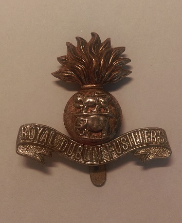 Photo of Royal Dublin Fusiliers Cap Badge from personal collection